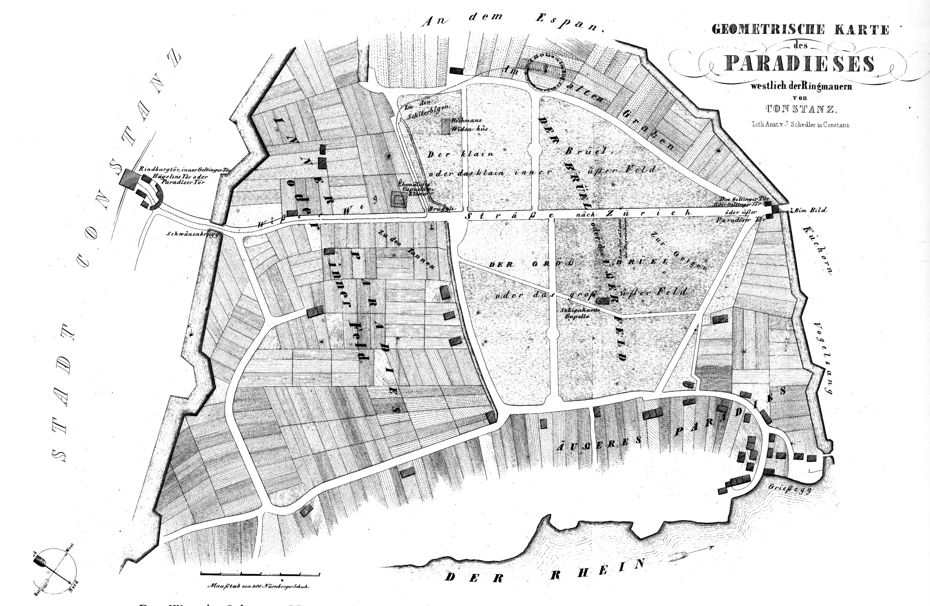 Reconstruction of the area called “Brühl” outside the walls of Constance, where Jan Hus was burnt at the stake. The circle at the top marks the spot where the stake was located; the dotted line leading to marks Hus’ last steps. Drawing by J. Eiselein 1847